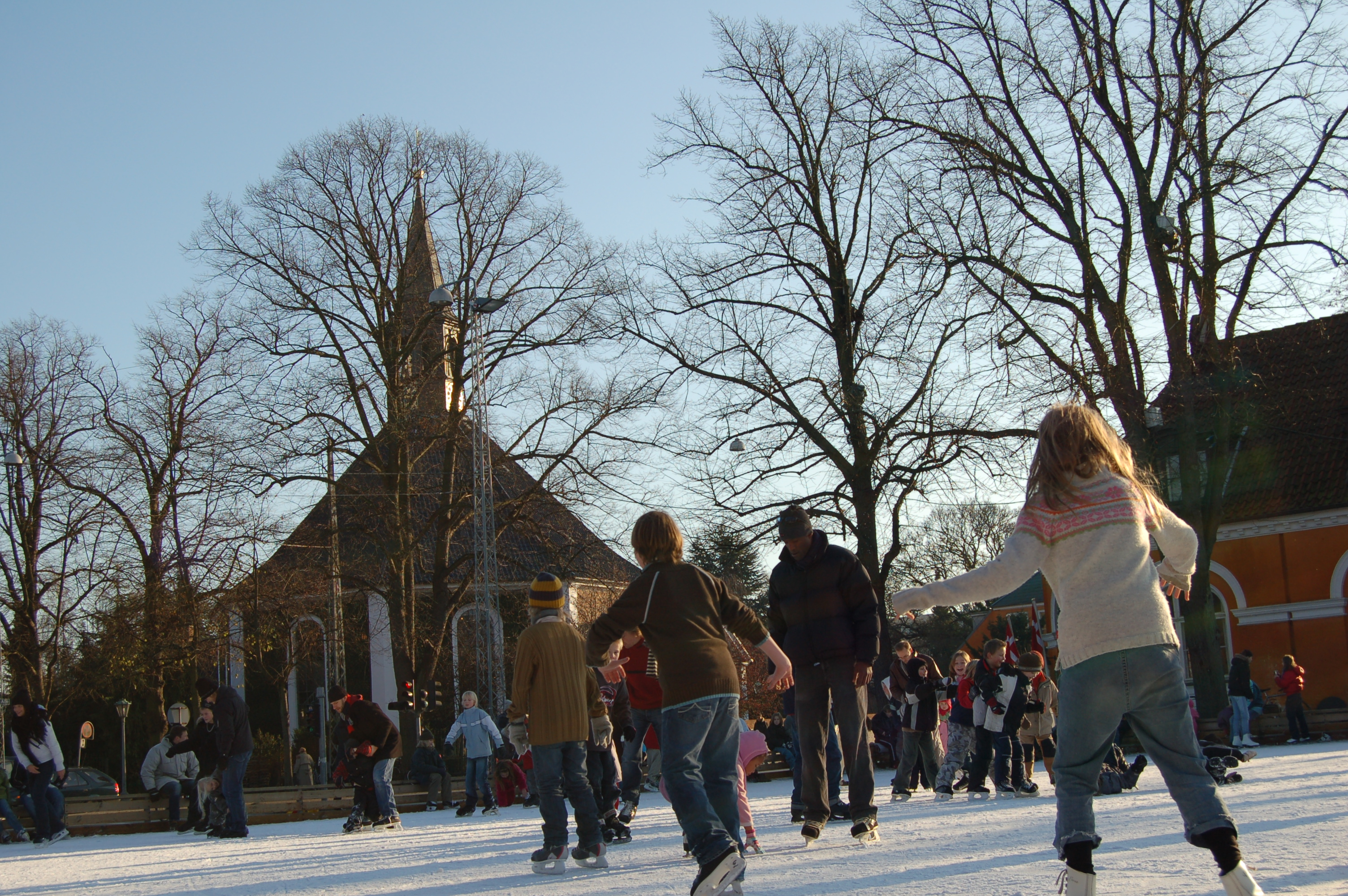 Ice-skaters on the out-door ice-skating rink at Frederiksberg Runddel in the Frederiksberg district of Copenhagen, Denmark, with Frederiksberg Church as a backdrop